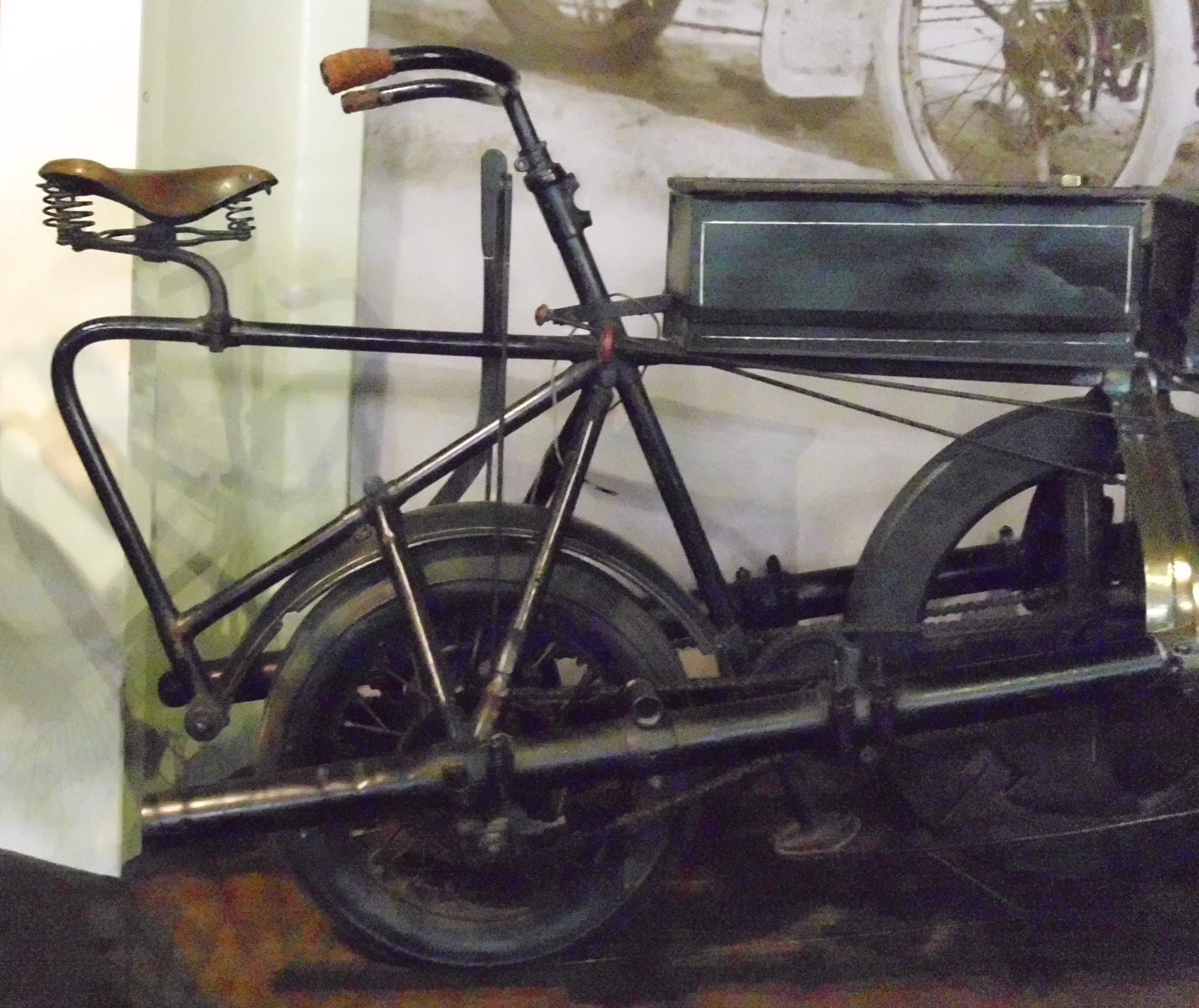 Pennington Autocar 1896